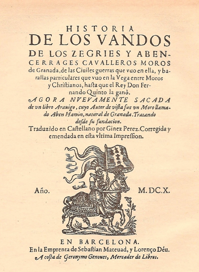 The title page of "Historia de los vandos de los Zegríes y Abencerrajes", Ginés Pérez de Hita, Barcelona, 1610.